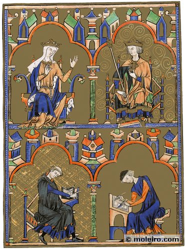 Bible of Saint Louis, Folium 8 recto, Facsimile by Moleiro